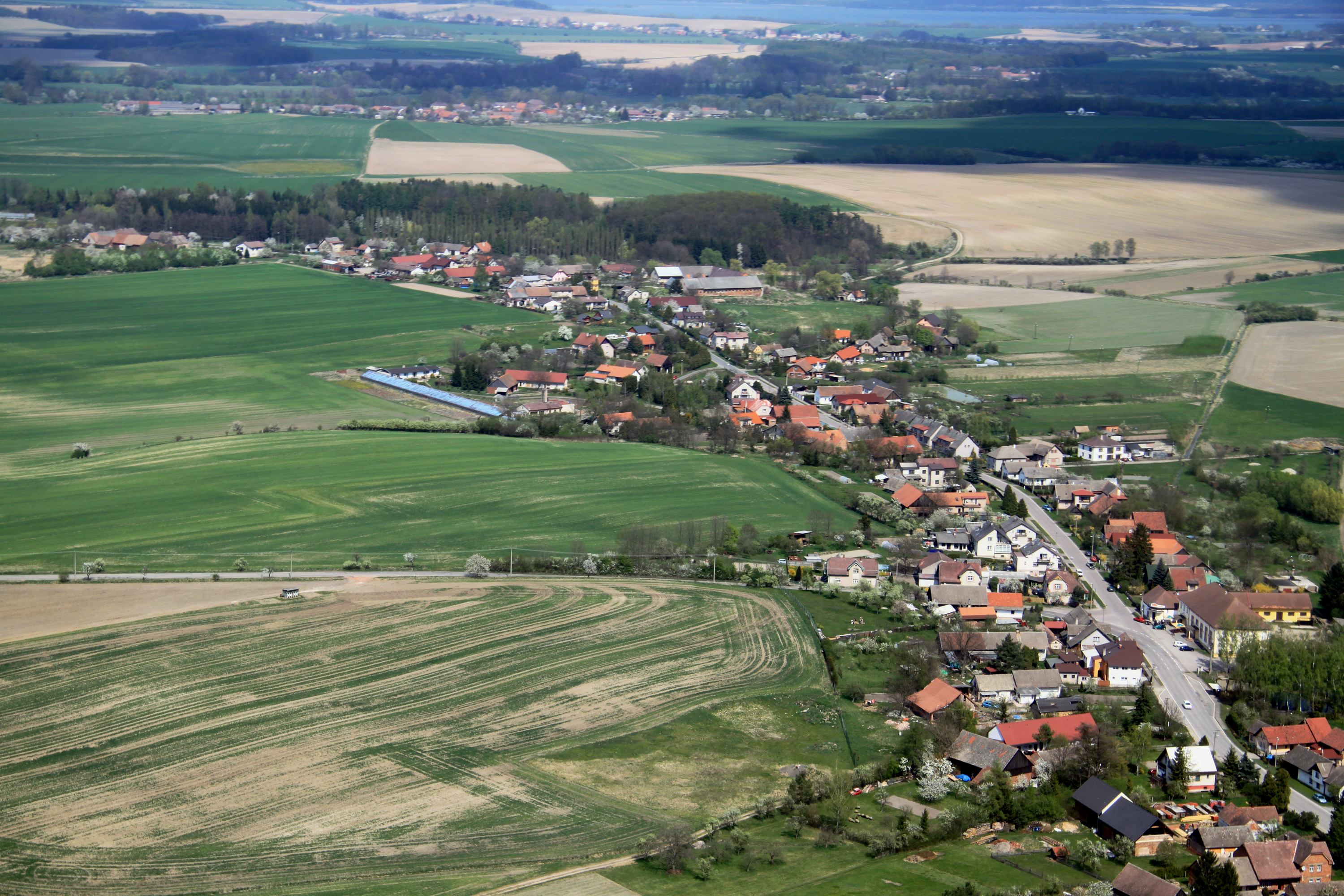 Village Jasenná near of Jaroměř, from air, eastern Bohemia, Czech Republic